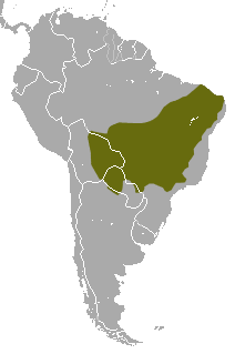 Gray Short-tailed Opossum (Monodelphis domestica) range